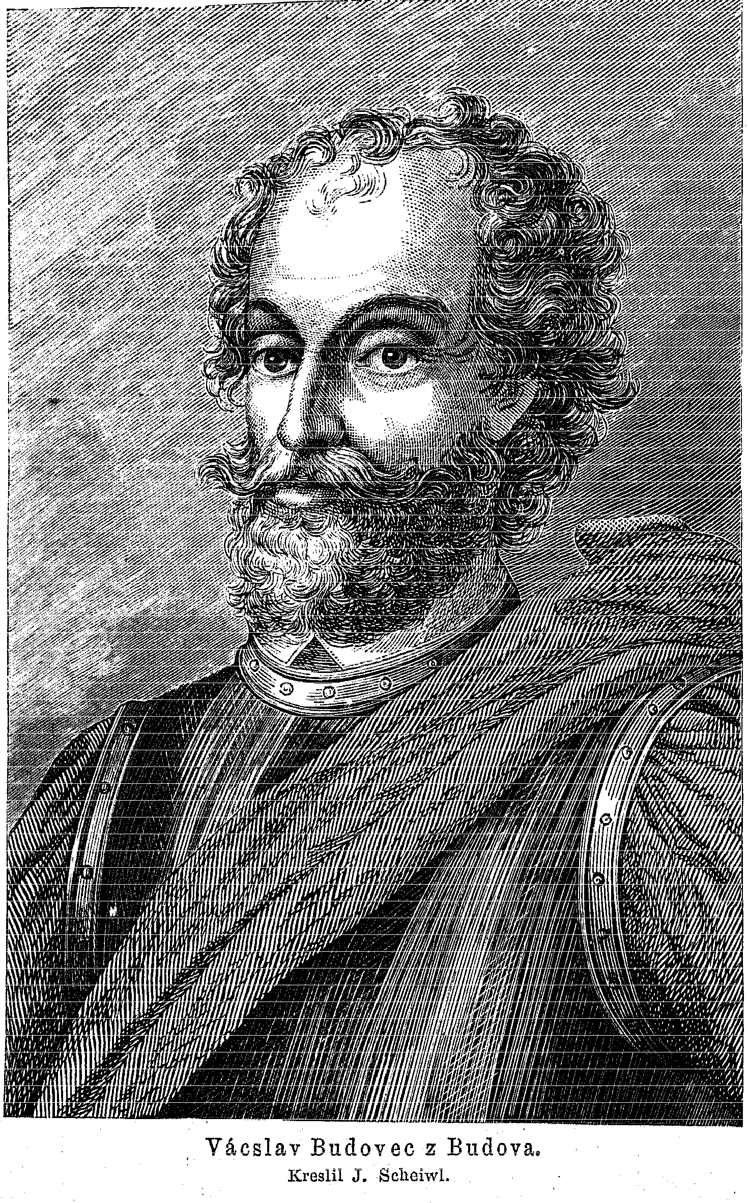 Portrait of Václav Budovec z Budova (1551 - 1621), Czech nobleman